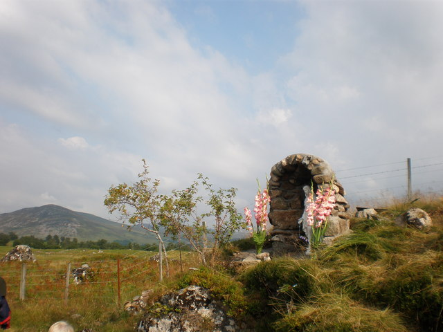 Our Lady of the Highlands Grotto, Stratherrick The grotto is on the eastern boundary of the RC church croft at Whitebridge. The boundary fence can be seen beside it with Carn na Glaice Moire in background.